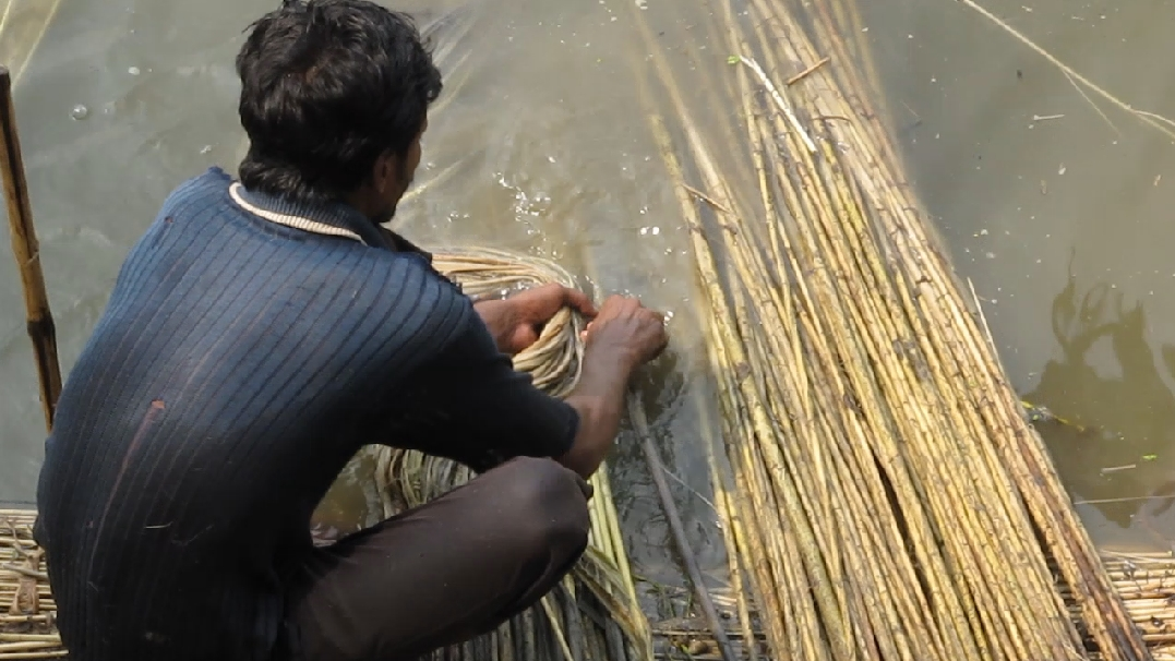 A worker is seen extracting jute fibres from the retted stem of jute plant. Nadia, West Bengal, India